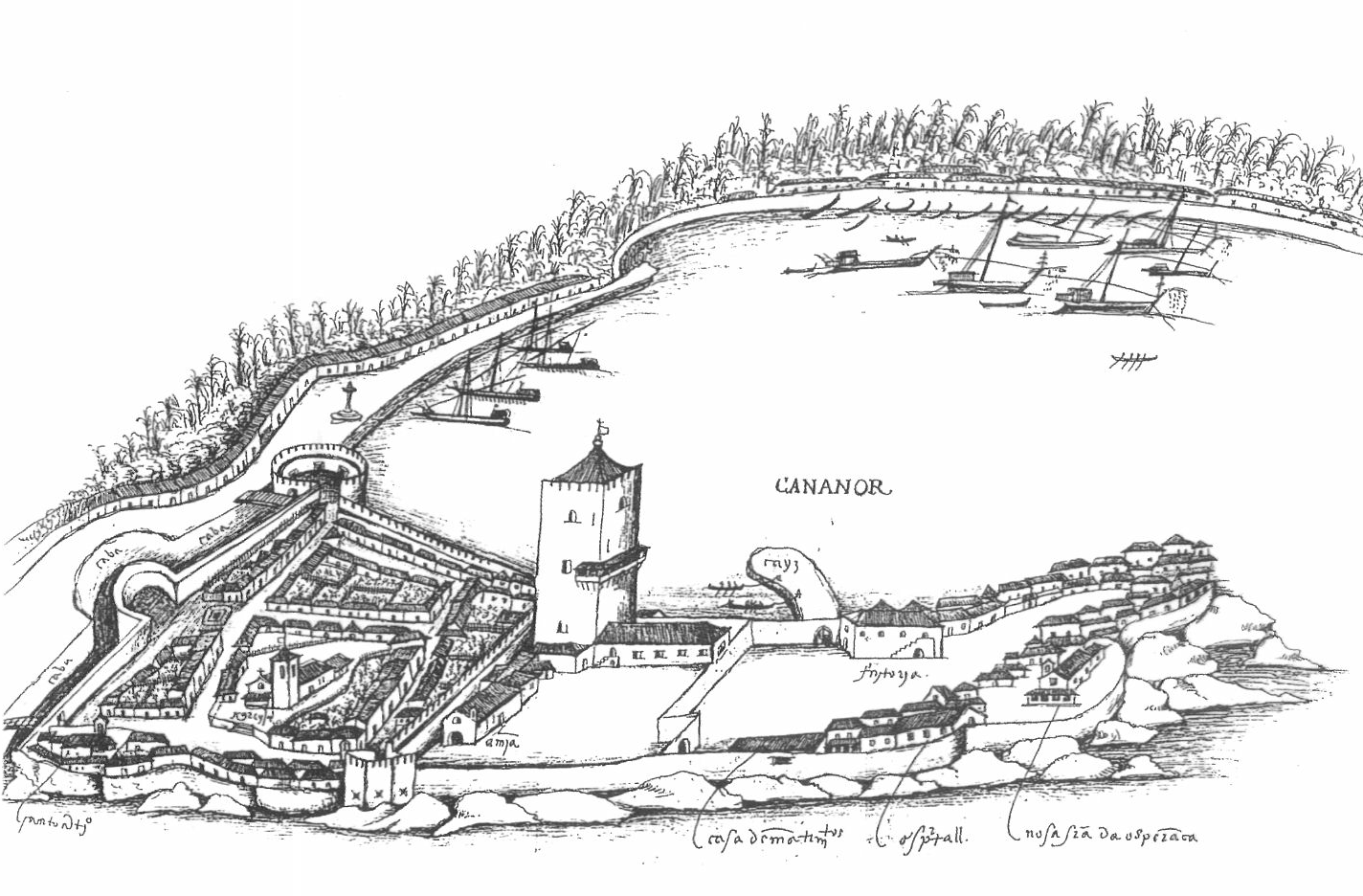 A 16th century depiction of the Portuguese fortress of Saint Angelo of Cannanore, in Lendas da Índia, by Gaspar Correia between 1550-1553 and first published in 1858.